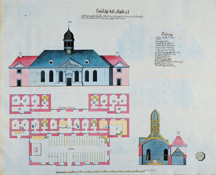 Plan drawing showing the church and prison at Kastellet in Copenhagen, Denmark